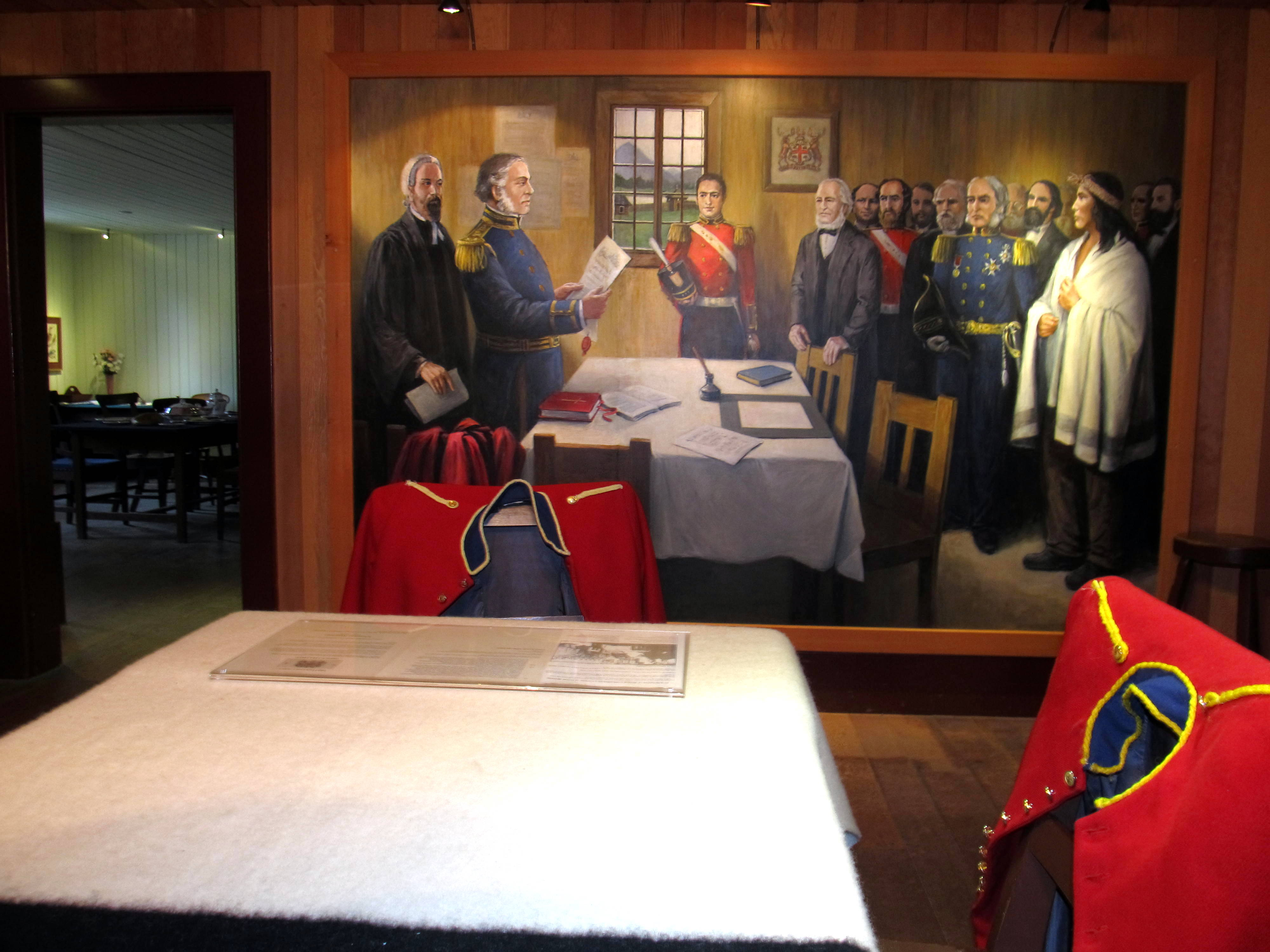 Big House